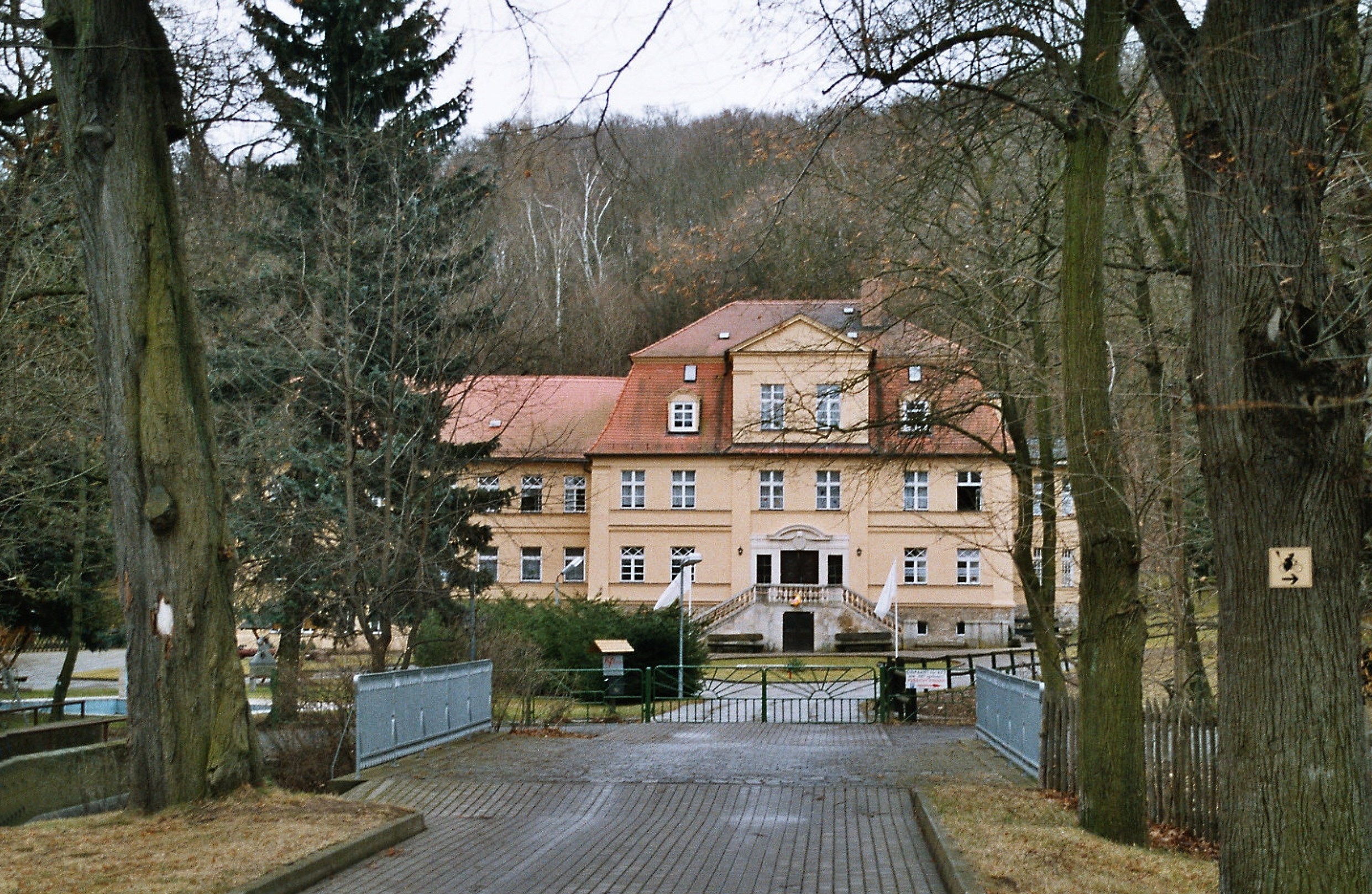 Arnstein, Schloss Harkerode This is a photograph of an architectural monument. 65709